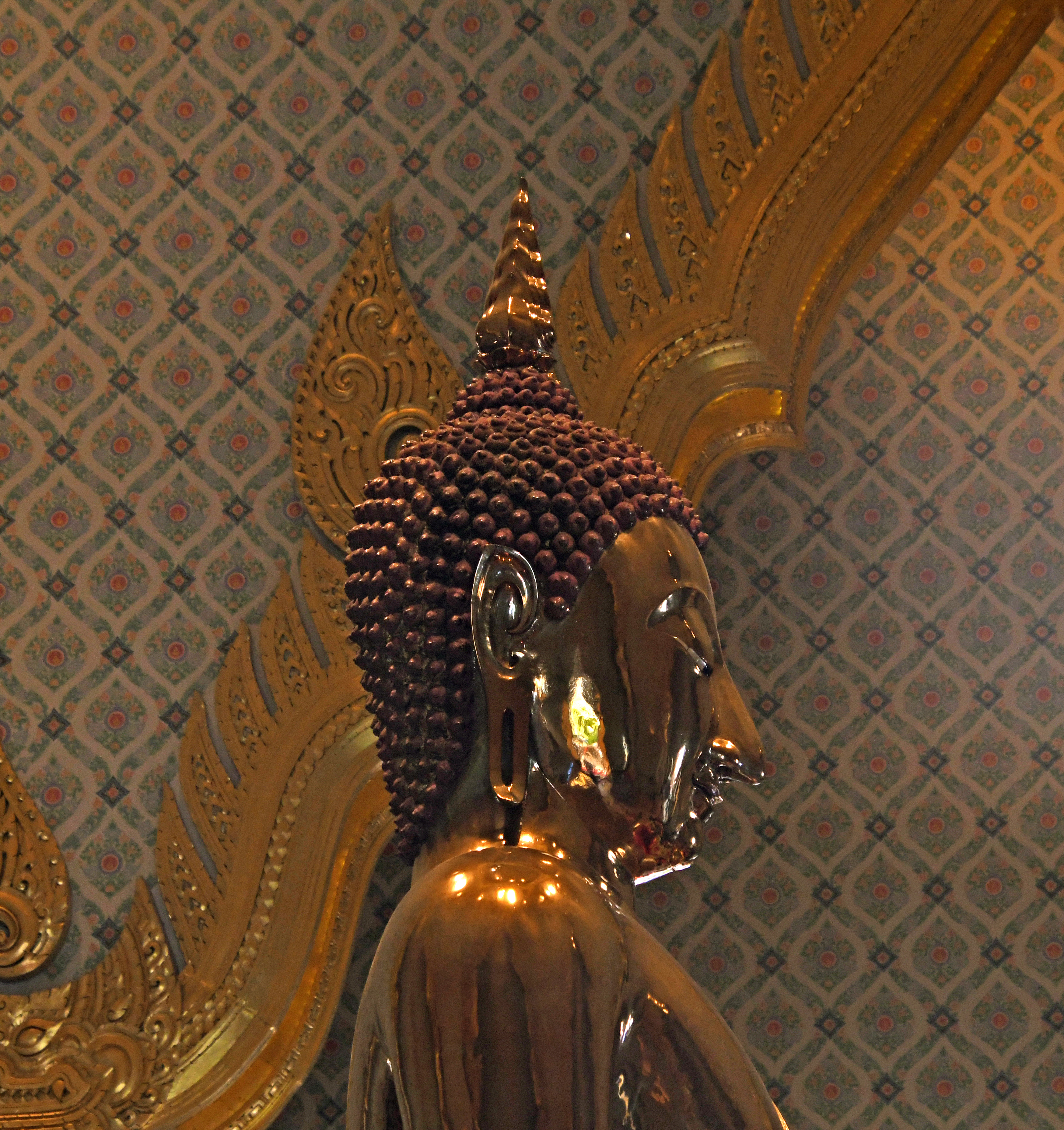 Side view of the golden buddha statue in the temple of Wat Traimit, Bangkok, Thailand.